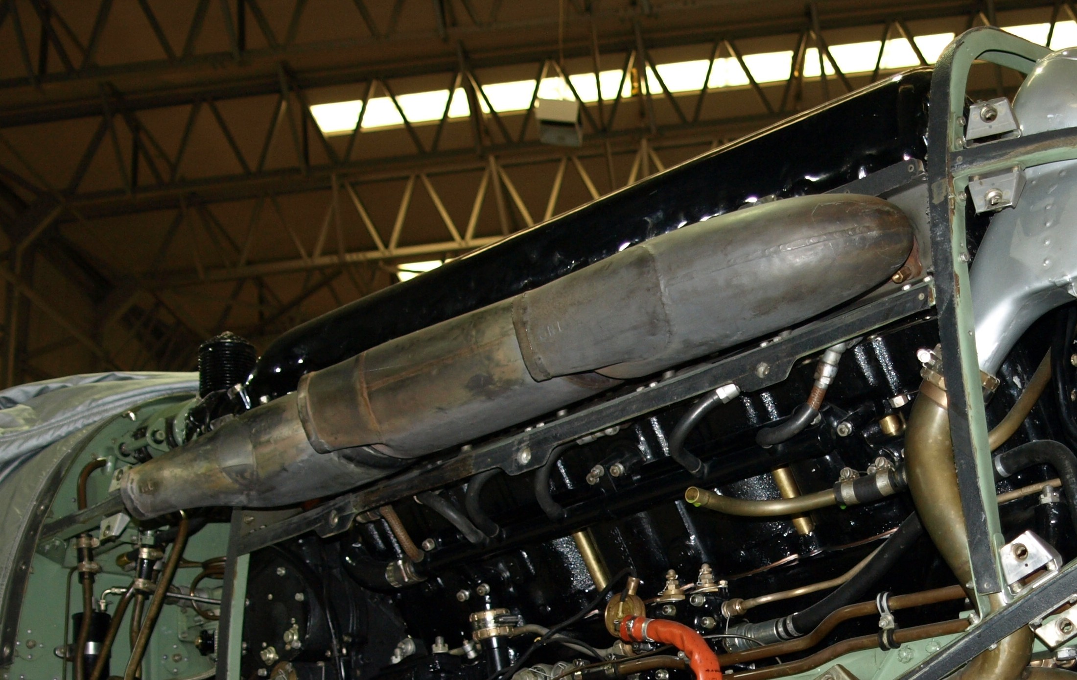 Ejector exhaust detail of a Rolls-Royce Merlin installed in an airworthy Supermarine Spitfire (IWM Duxford)